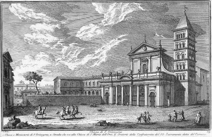 1) S. Grisogono (more commonly S. Crisogono); 2) Street leading to S. Maria dell'Orto; 3) Oratorio della Confraternita del SS. Sacramento.